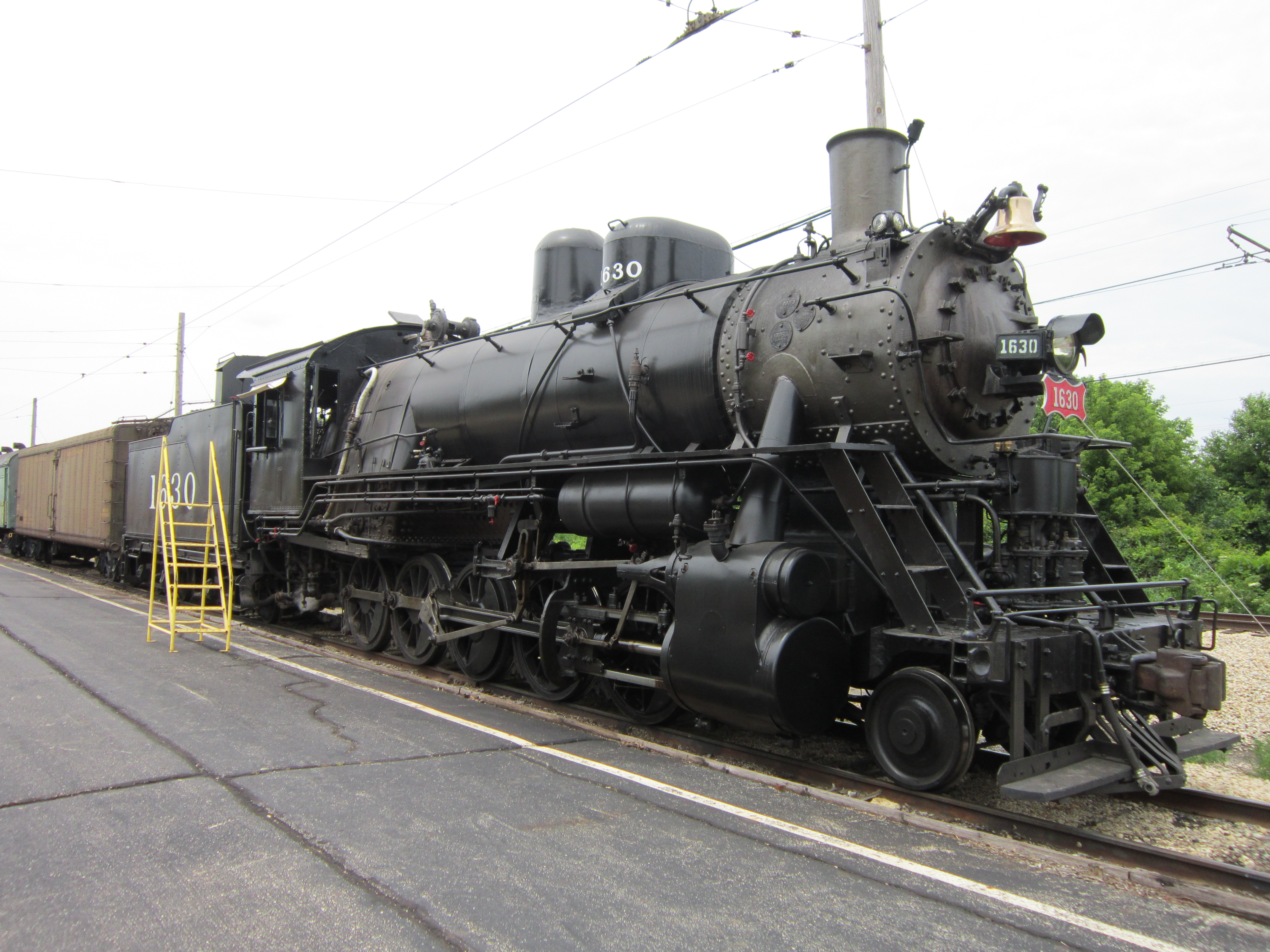 St. Louis & San Francisco 1630